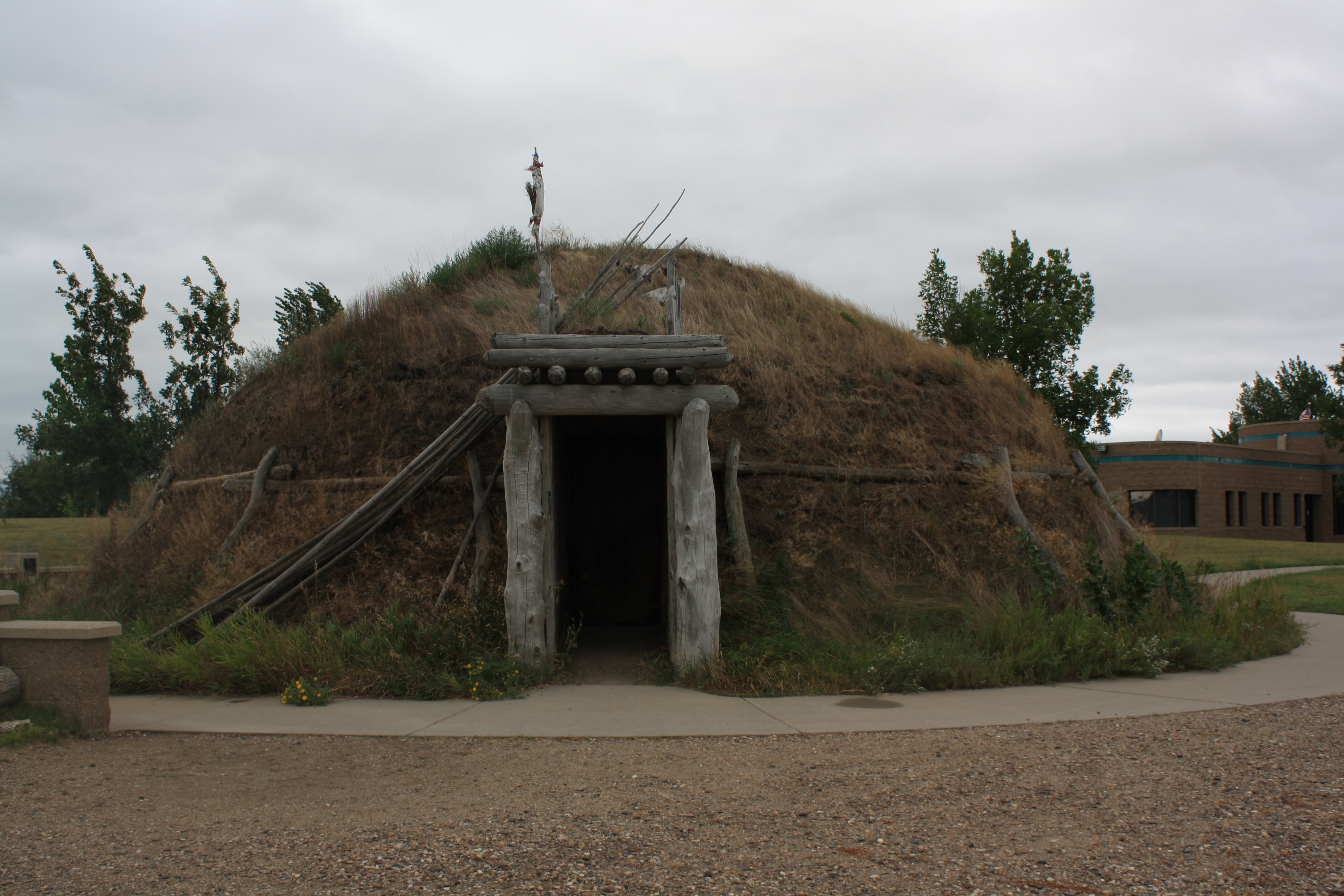 Earthen lodge reconstitution exterior view at Knife River Indian Village